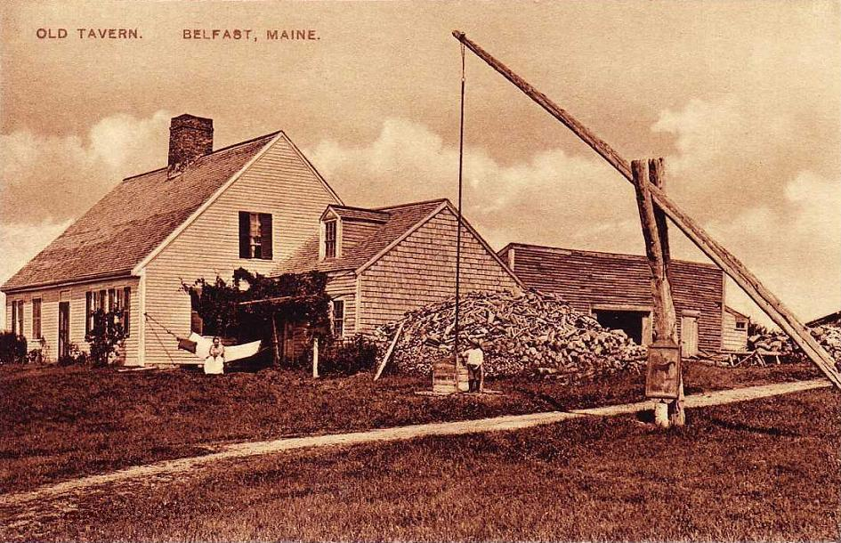 Old Tavern, Belfast, ME; from a c. 1910 postcard published by M. P. Woodcock & Son.